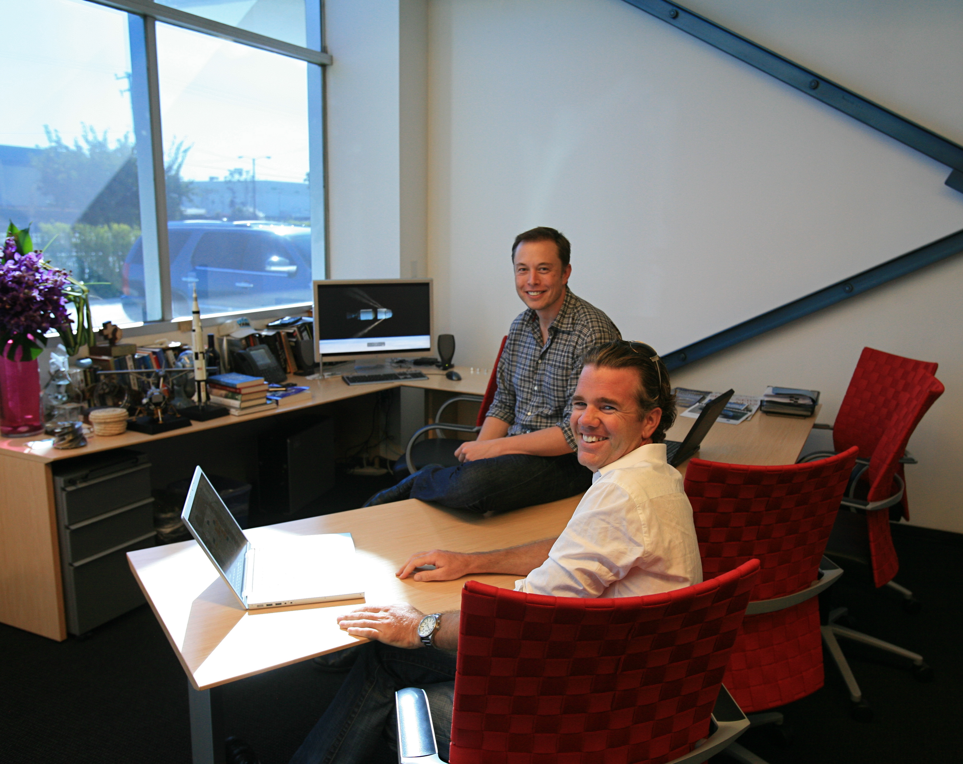 Franz von Holzhausen (front) and Elon Musk.